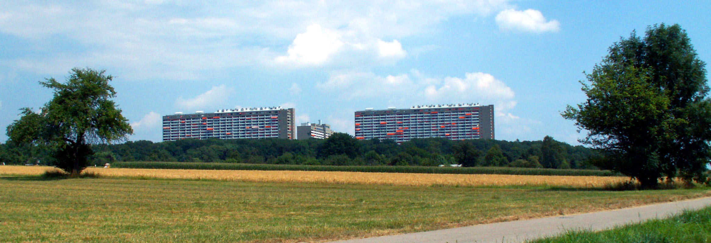 high-rise building Hannibal in Stuttgart, Germany